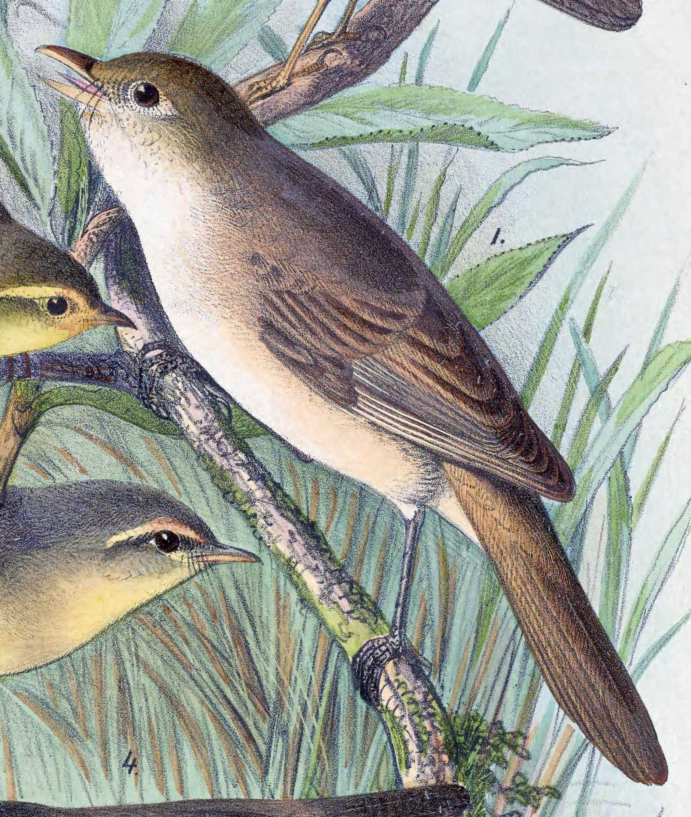 « Arundinax aëdon » = Iduna aedon (Thick-billed warbler) - male